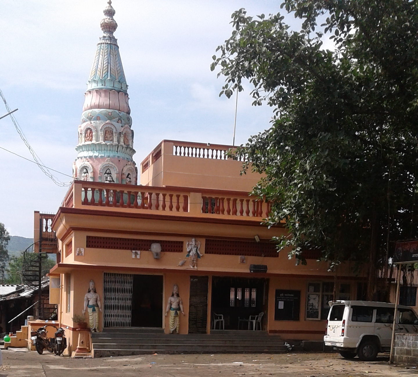 विठ्ठल रखुमाई मंदिर